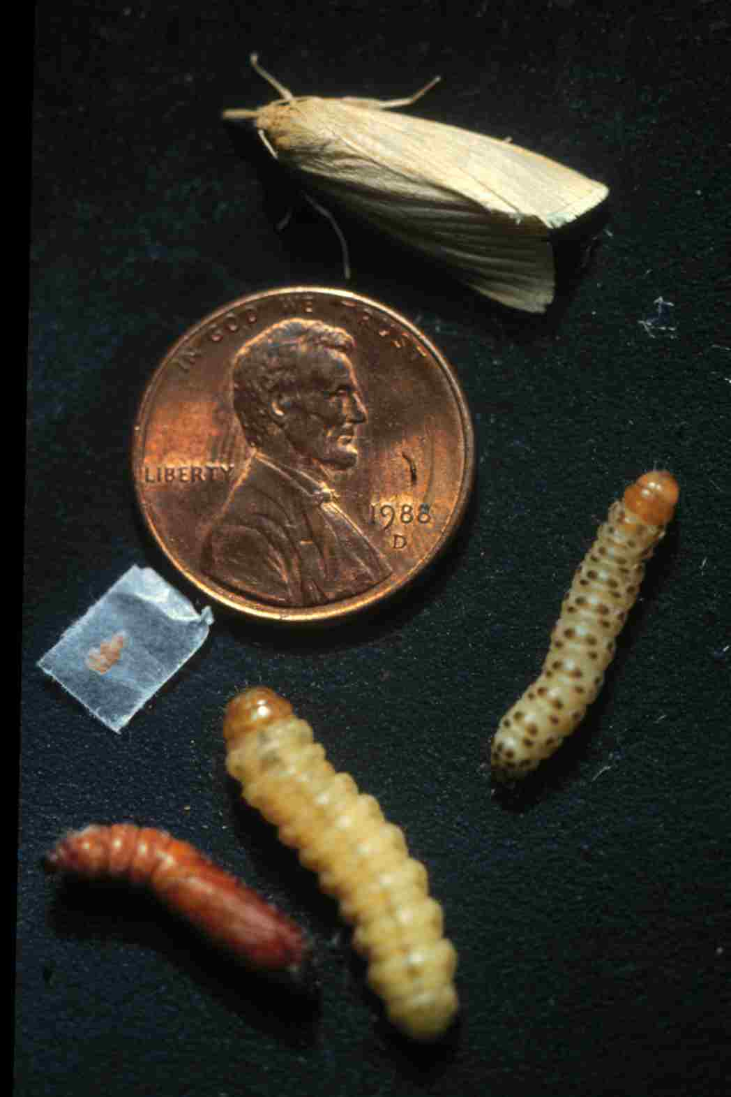 This image depicts all of the life stages of the southwestern corn borer (Diatraea grandiosella). Clockwise starting at top: adult moth, non-diapausing (spotted) last instar larva, diapausing (immaculate) larva, pupa, eggs (laid on wax paper), first instar larva (above date on coin).